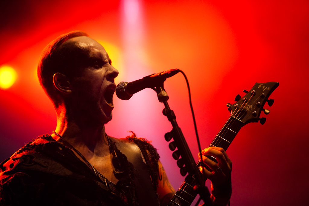 Nergal of Behemoth performing live at Getaway Rock Festival 2012.